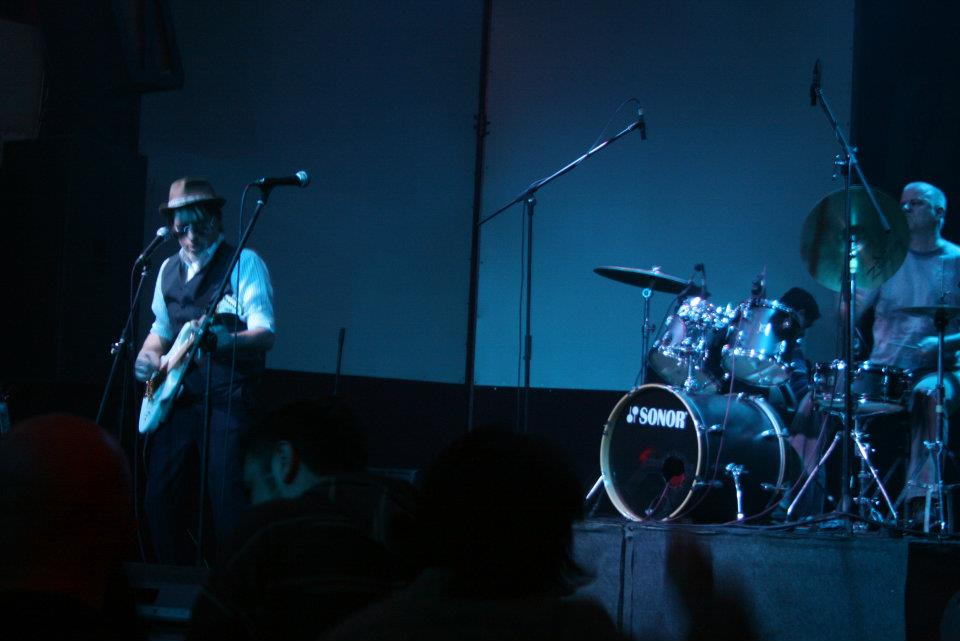 SCH live